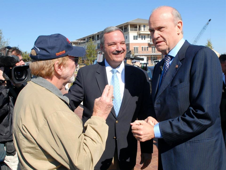 in Pensacola, Florida